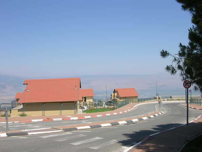 new quarter of Misgav Am